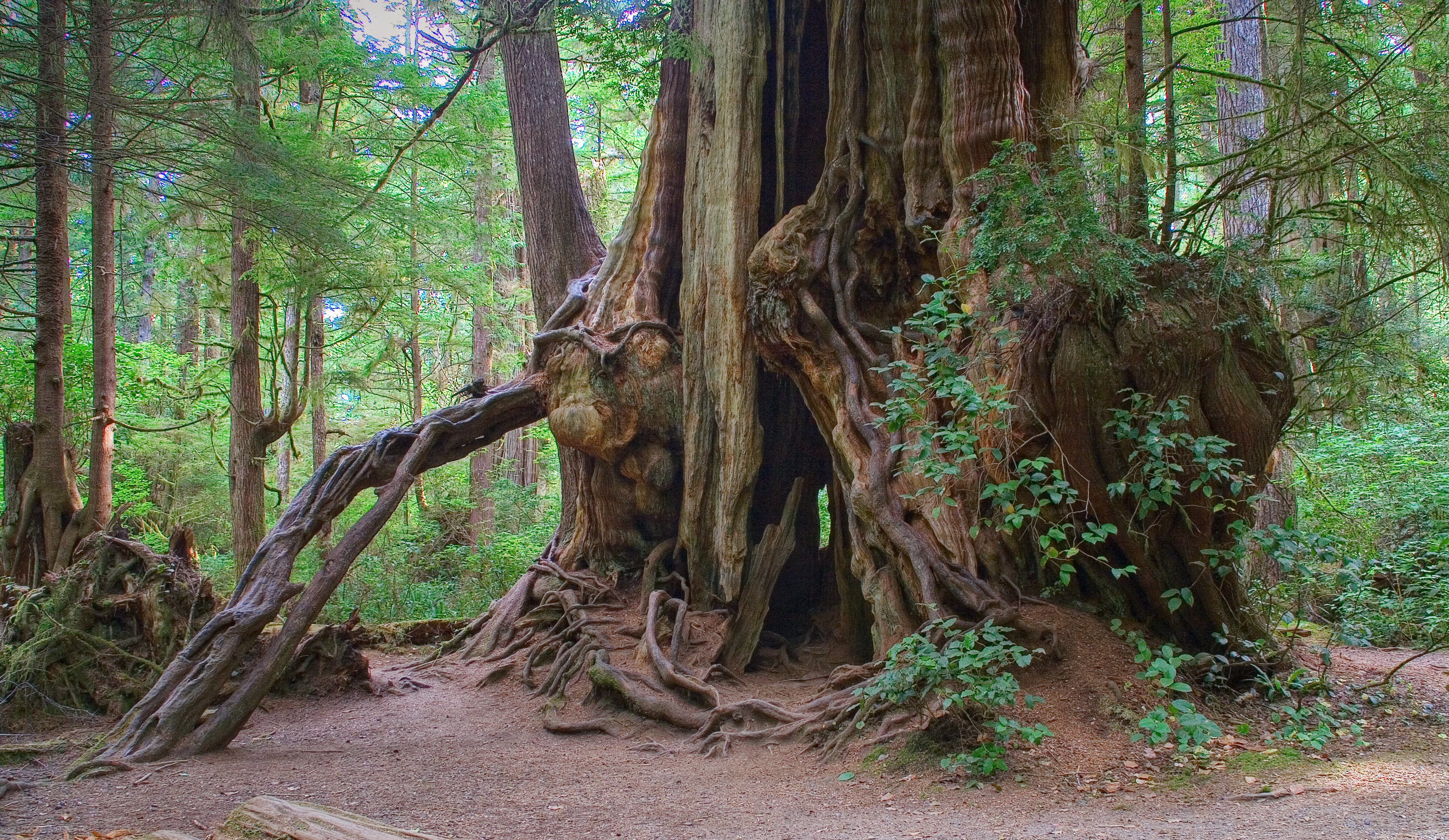 The Kalaloch Cedar, just off Highway 101 in the Olympic National Park, with a dbh of 599 (19,6 ft) cm and wood volume of 350 cubic meters (12,270 cu ft) (Van Pelt 2001). (From Best Large On Black